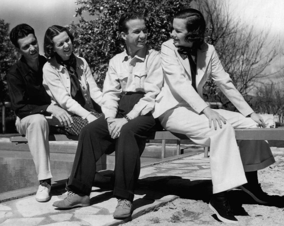 Photo of the radio team of the program "Lum and Abner" and their wives. From left: Chester Lauck (Lum) and his wife, Norris Goff (Abner) and his wife.